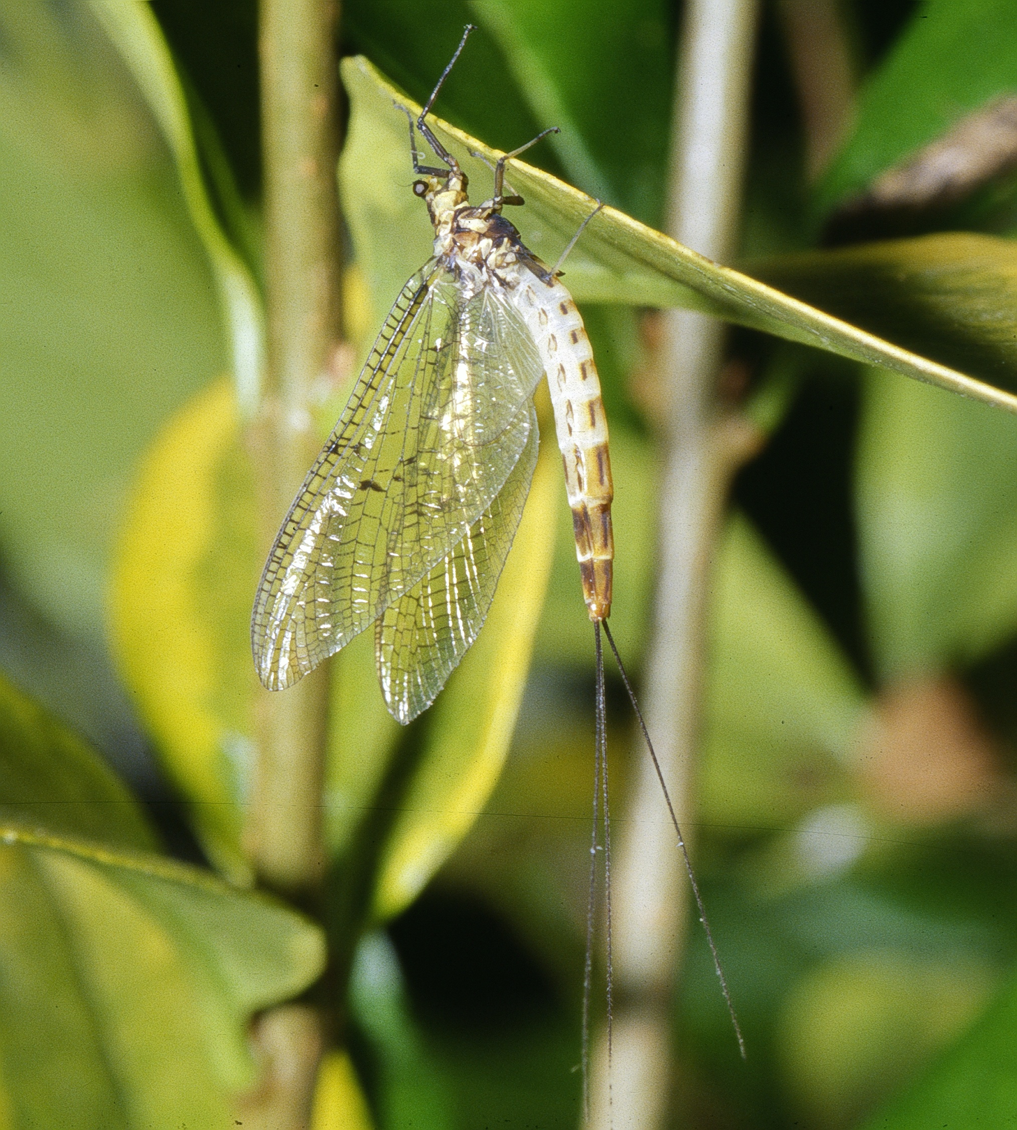 Mayfly shooted in Calvados (Boulon 14) in France.